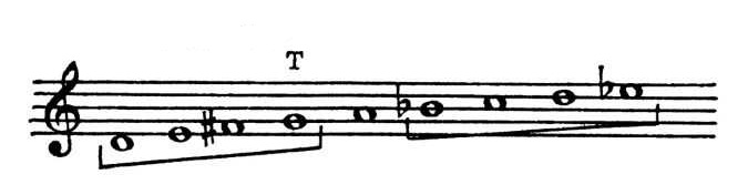 Scale of Bayati-Shiraz (Azerbaijani mugham)